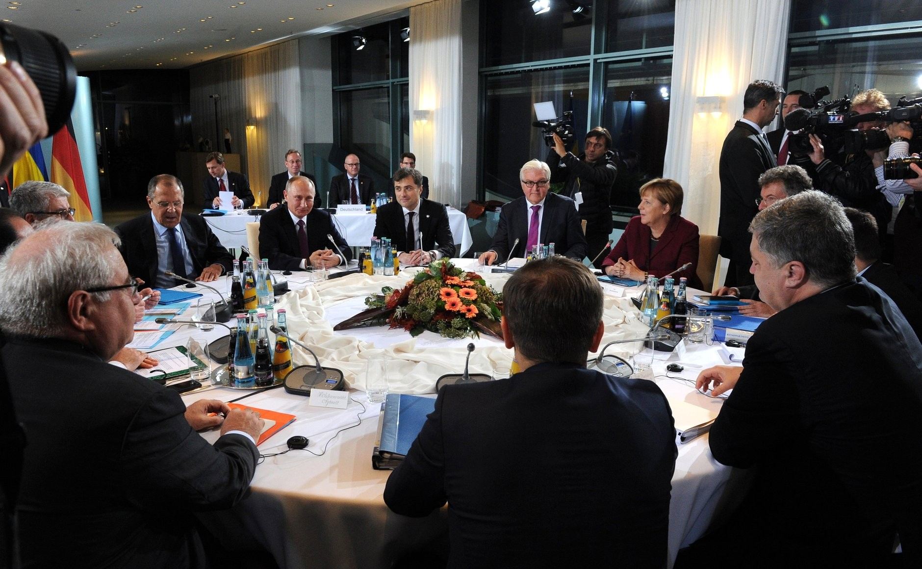 Normandy format talks on settling the situation in Ukraine were held in Berlin between President of Russia Vladimir Putin, Federal Chancellor of Germany Angela Merkel, President of France Francois Hollande, and President of Ukraine Petro Poroshenko (2016-10-19).